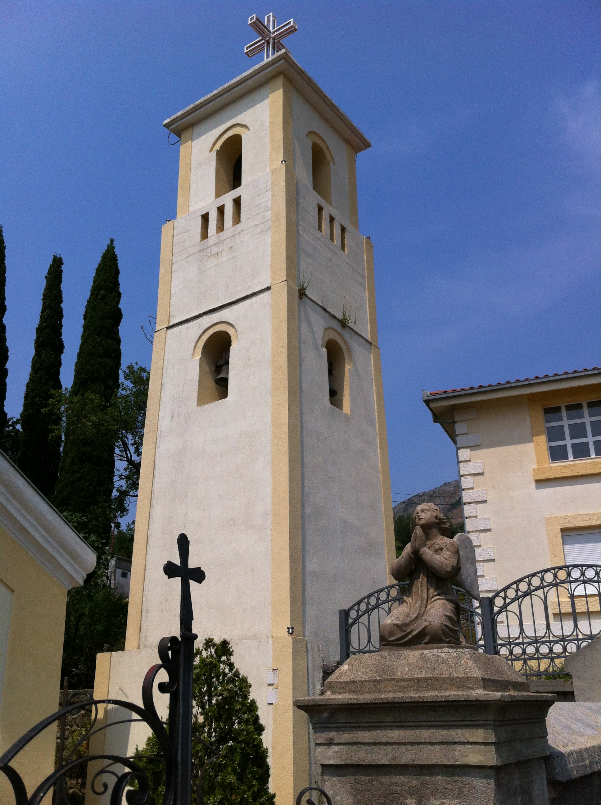 Cathedral of the Immaculate Conception in Bar